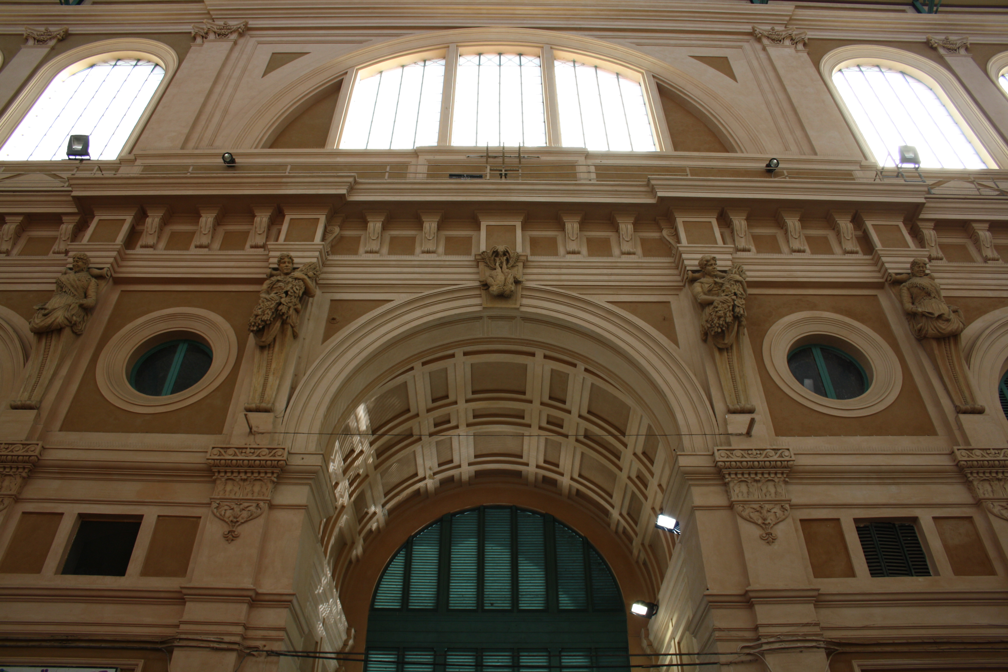 Italy, Livorno, Scali Aurelio Saffi, Mercato delle Vettovaglie. Particulars above the main entrance.